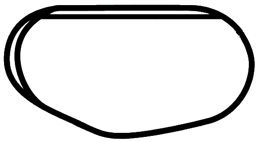 Mapa do Phoenix International Raceway